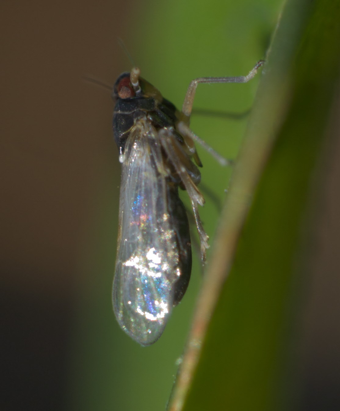 Isodelphax basivitta, Family: Delphacid Planthoppers, ID Confidence: 98